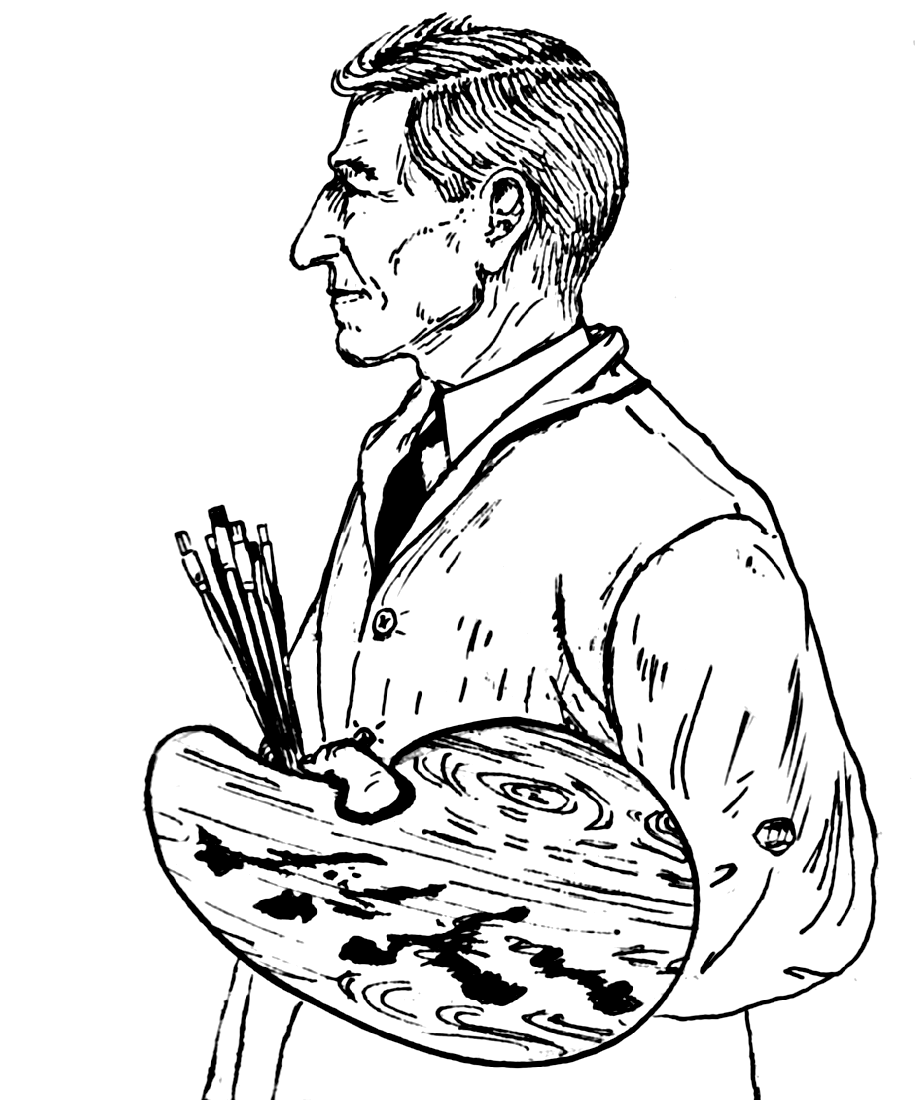 Line art drawing of palette.